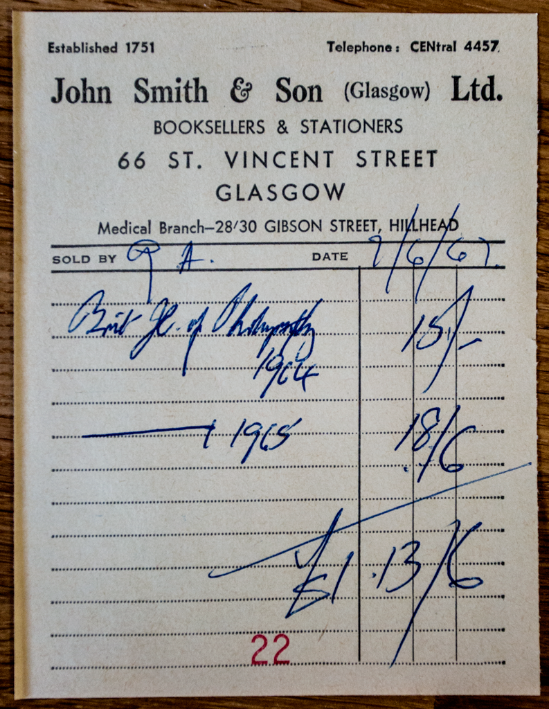 Receipt from John Smith & Son (Glasgow) LTD. 1967.